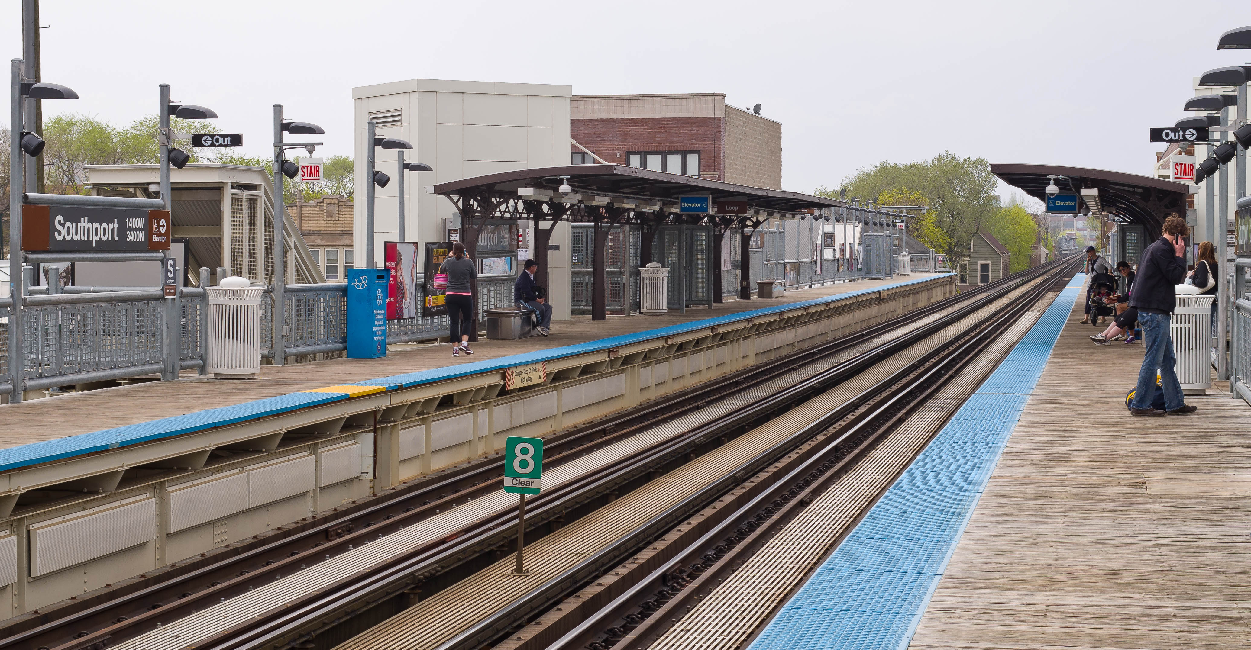 The entrance to Southport station on the Chicago Transit Authority's Brown Line, Chicago, Illinois.